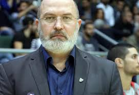 Tigran